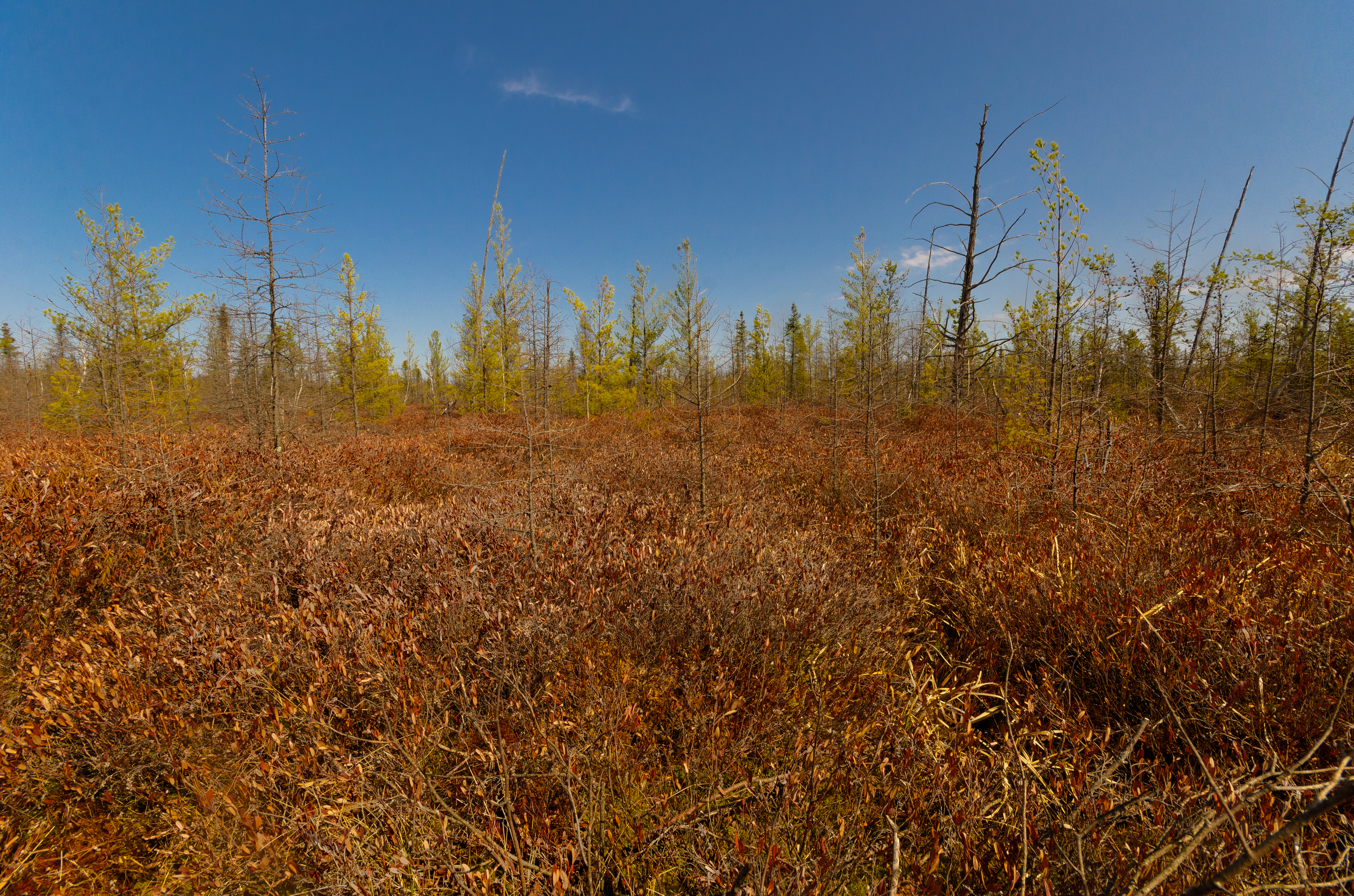 Dewey Marsh Wisconsin State Natural Area #182 Portage County